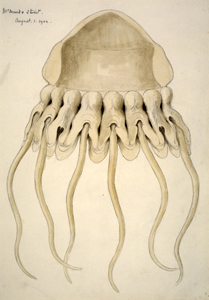 Drawing of Periphylla periphylla produced in 1902 by Edward Adrian Wilson (1872 -1912). Wilson was the zoologist and junior surgeon on the 1901 -1904 Discovery Expedition to the Antarctic, under Commander Robert Falcon Scott (1868 -1912).